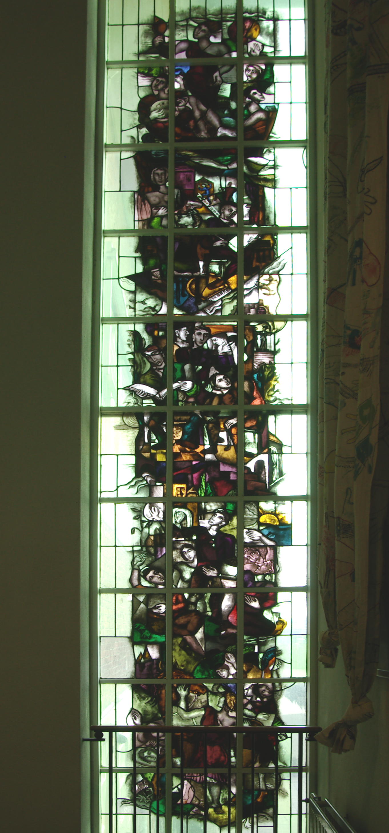 Stained glas